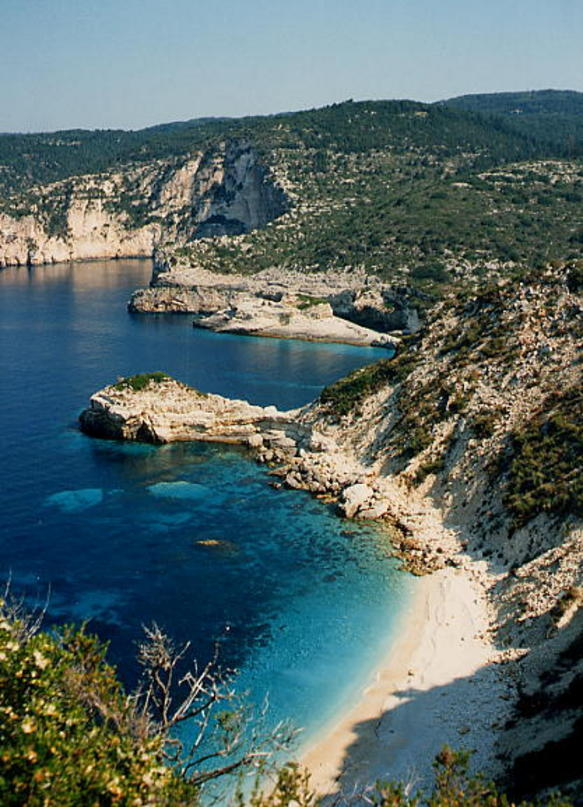 Paxi. Sterna bay (Paxi West coast), Paxi.